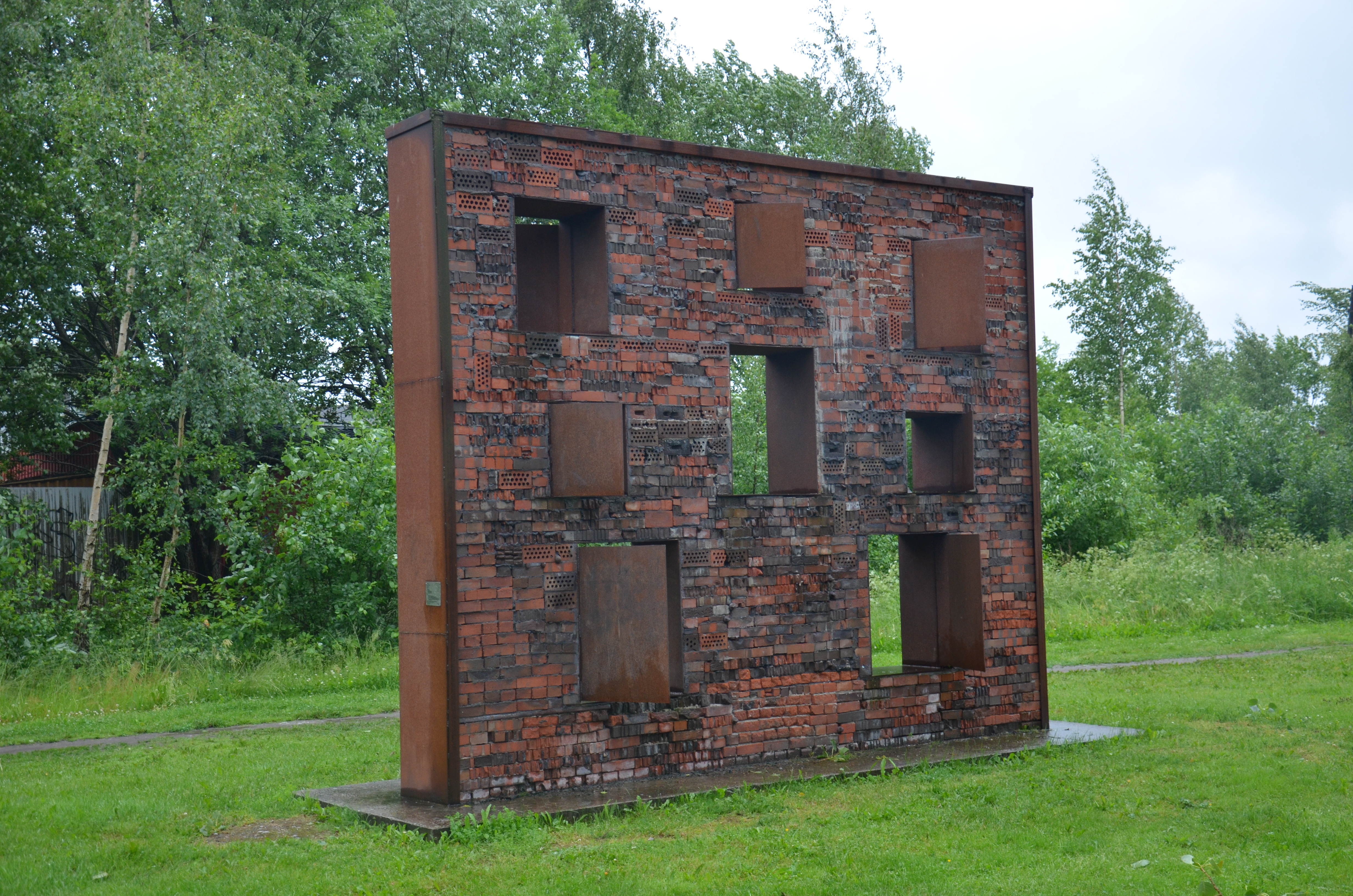 James Bates' Backdoor, brick, Lilla Å-promenaden in Örebro, Sweden